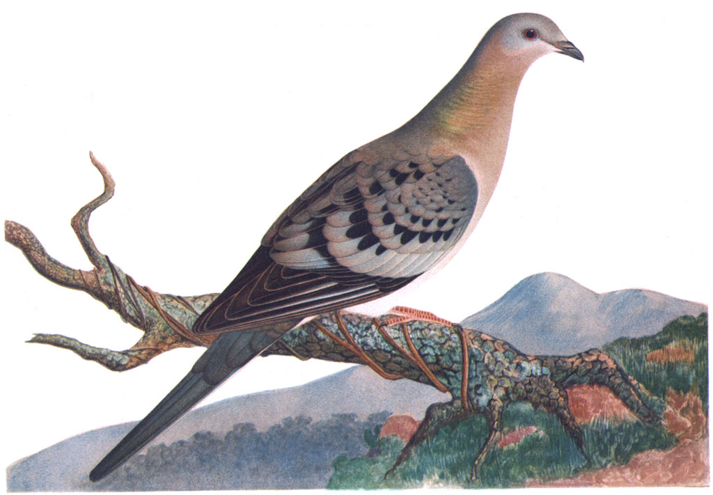 Passenger Pigeon, Ectopistes migratorius, female, chromolithograph after painting.